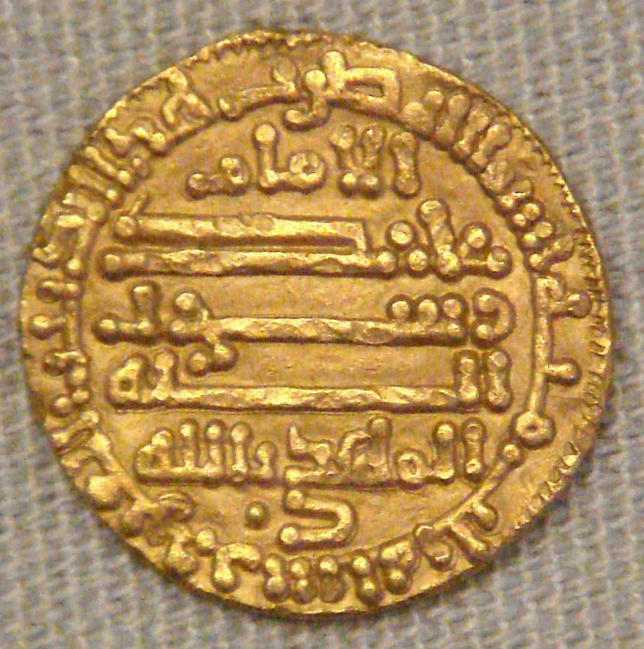 Calif_al_Mahdi_Kairouan_912_CE